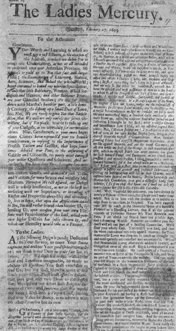 Periodical called "The Ladies Mercury", February 27, 1693